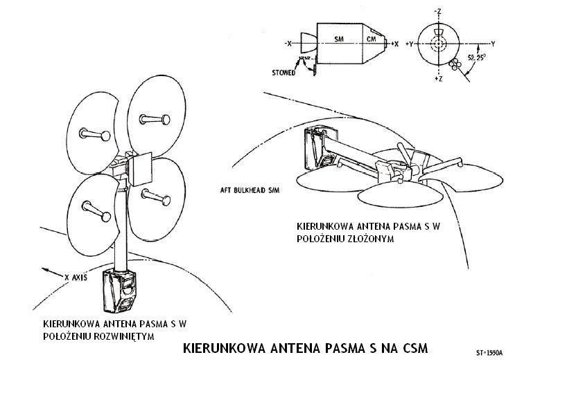 CSM high gain antenna